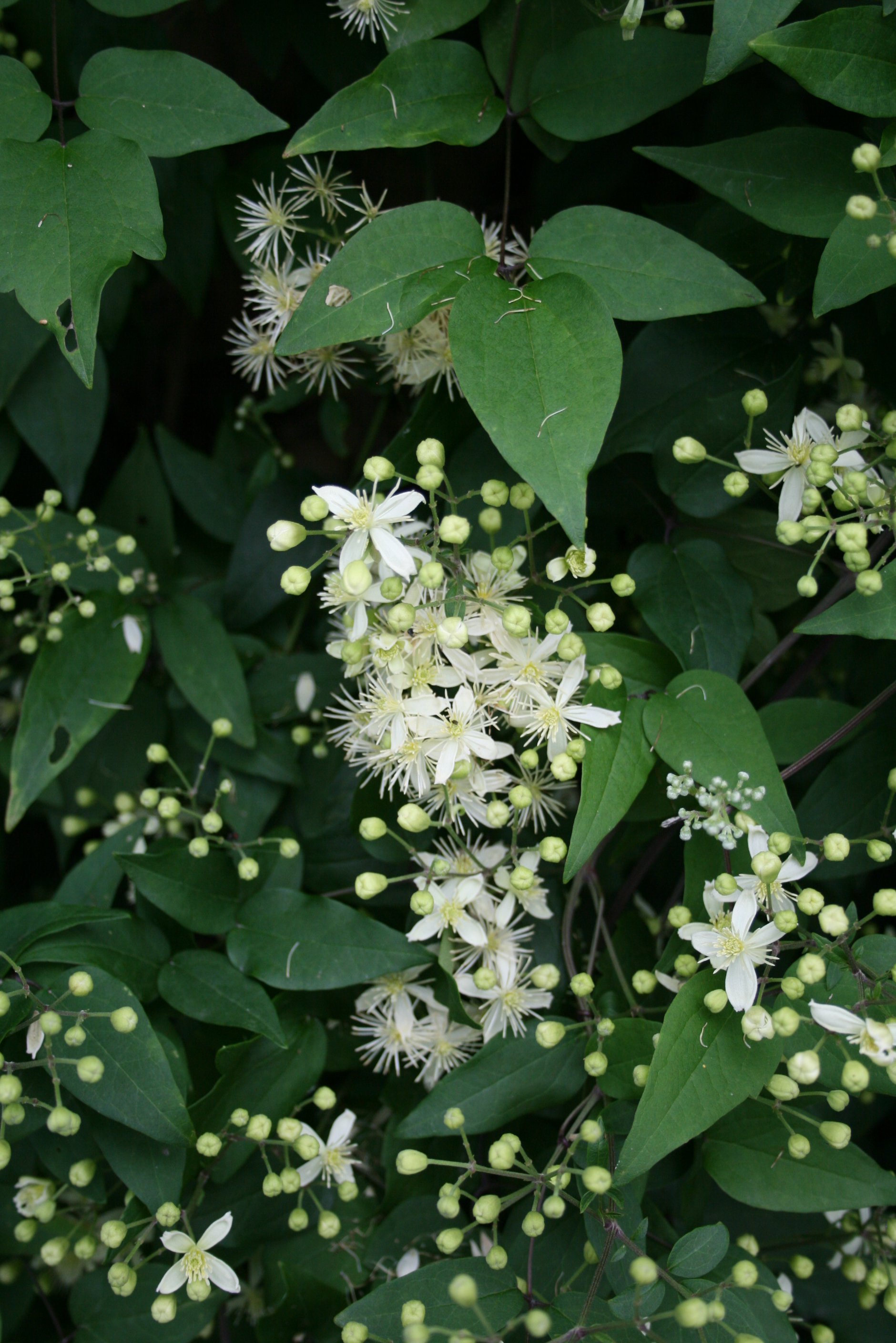 Clematis gouriana var. gouriana